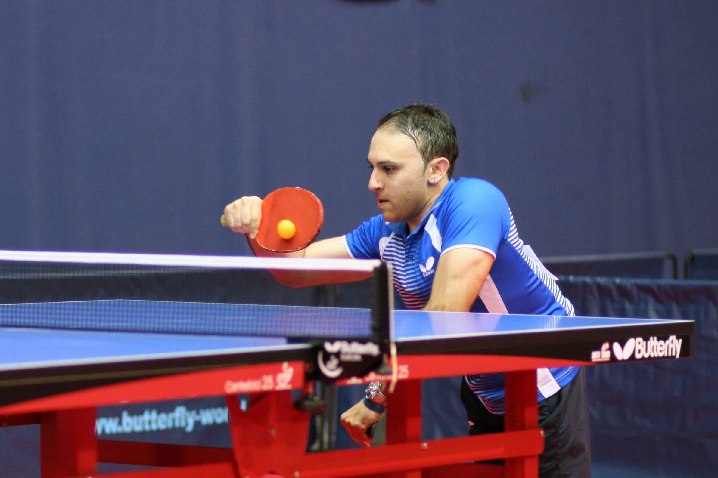 Raimondo Alecci